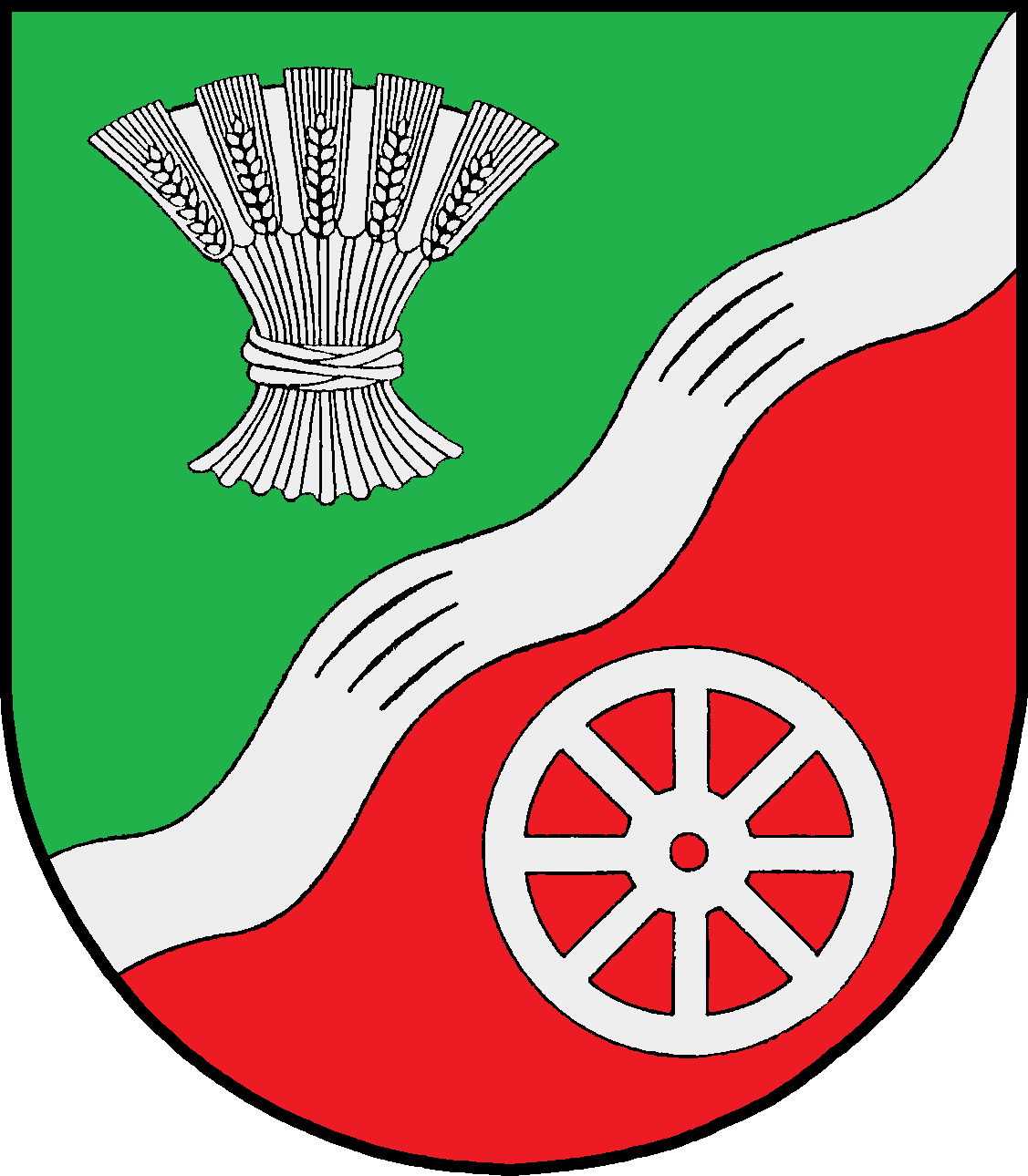 Coat of arms of the municipality Wasbek in Schleswig-Holstein, Germany.